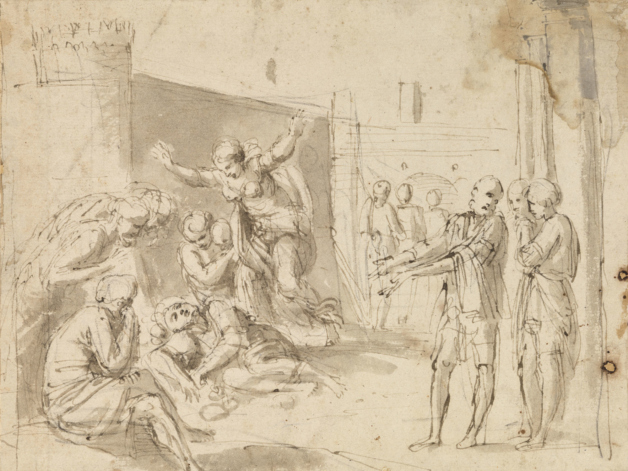 Studio per un martirio di santo Stefano